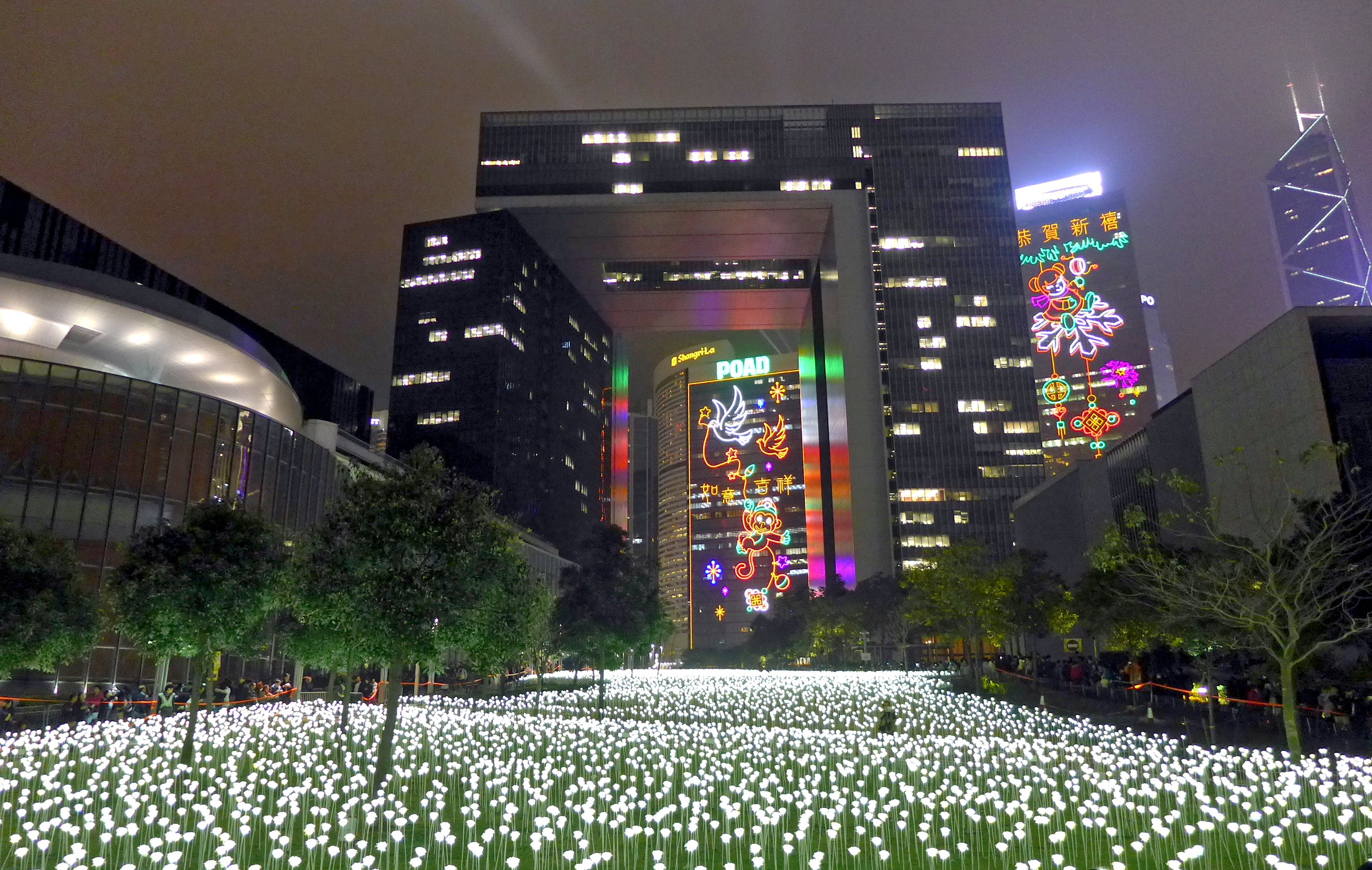 Central Government Offices